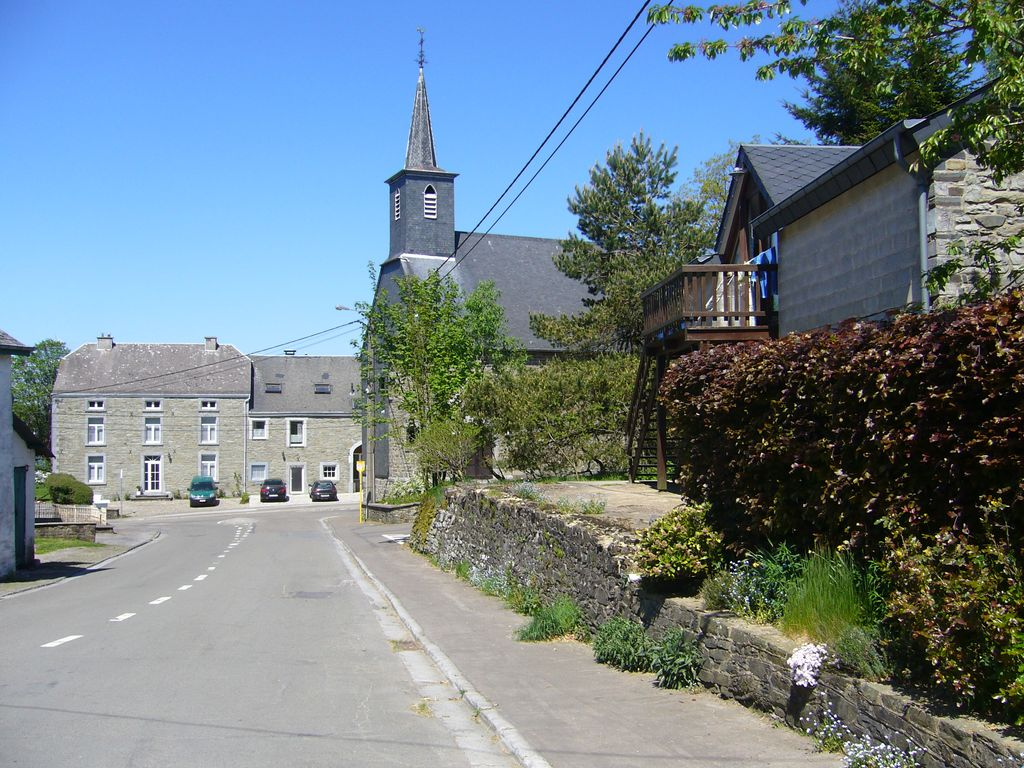 Recogne village near Libramont